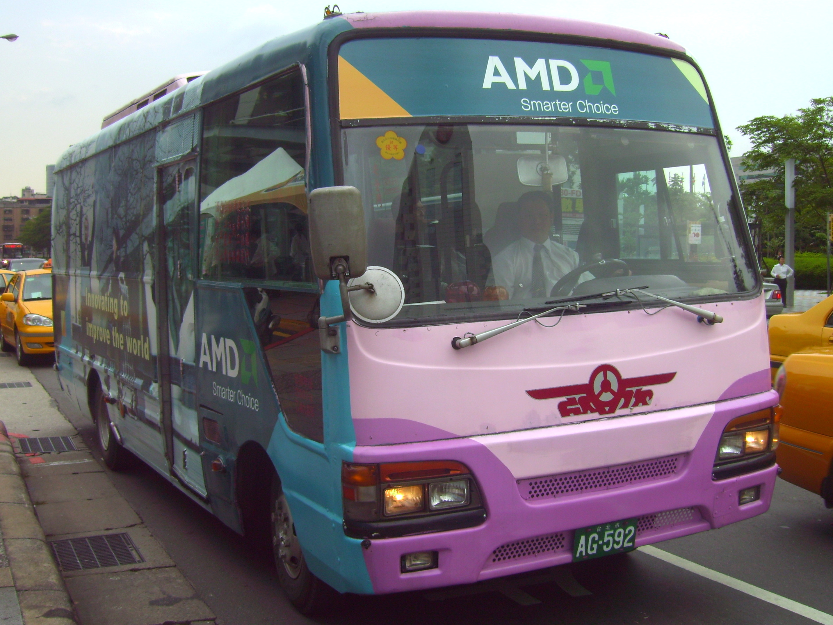 Even though exhibitors can't rent any minibuses to promote their product, but still, AMD invested a cost on a official shuttle bus of Computex Taipei 2007.